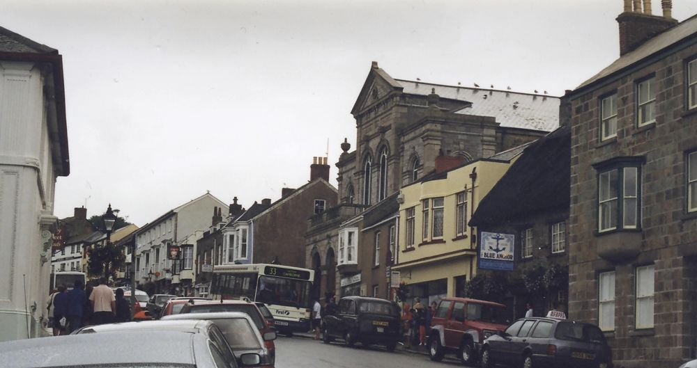 Coinagehall Street and the Blue Anchor Inn